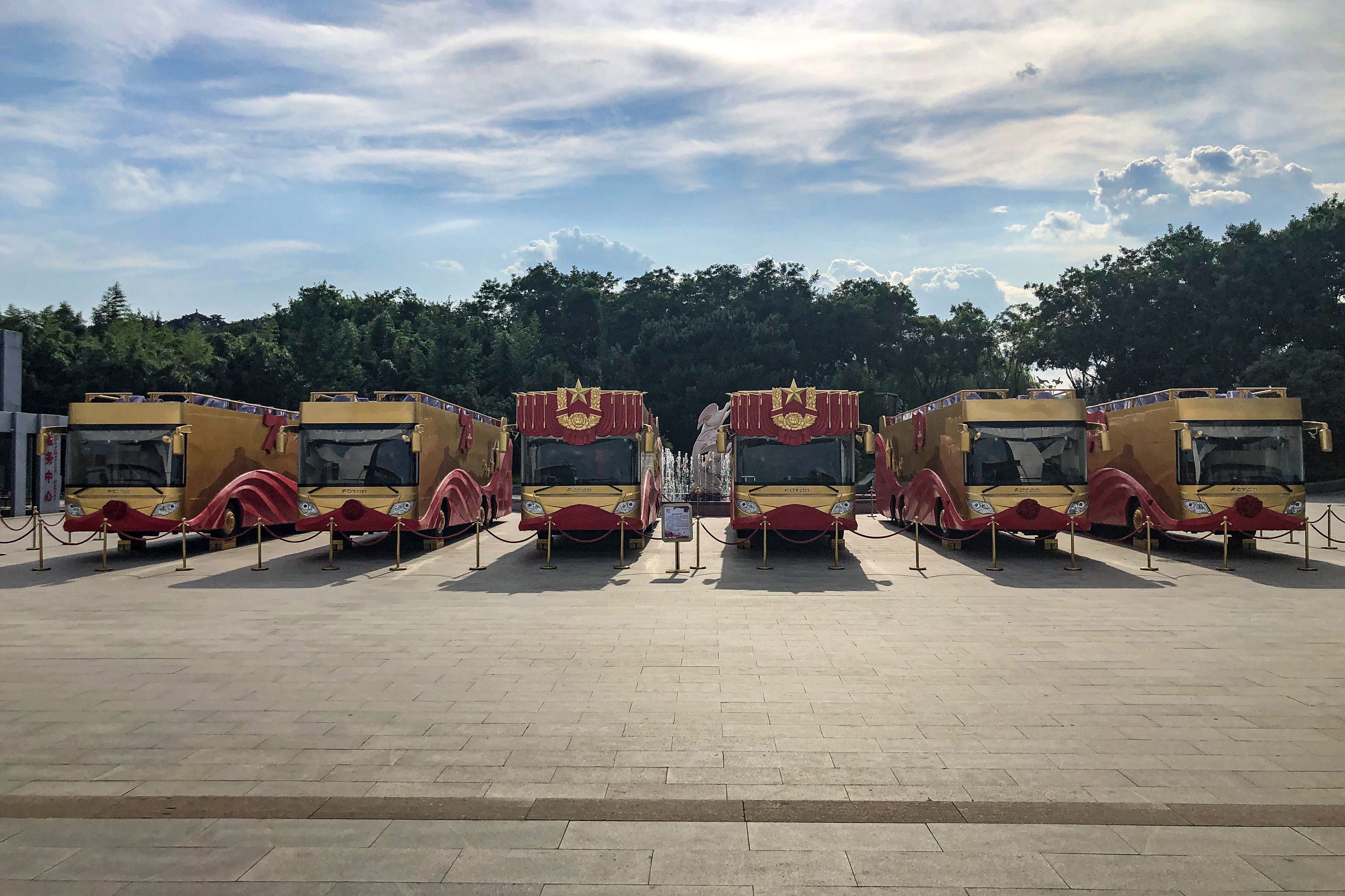 These limousines are based on Foton BJ6128 double-decker buses.